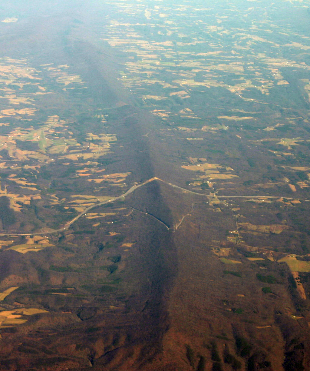 Oblique air photo of Sideling Hill facing north, with the Interstate 68 roadcut near center. Taken February 2006. Image color and contrast enhanced.